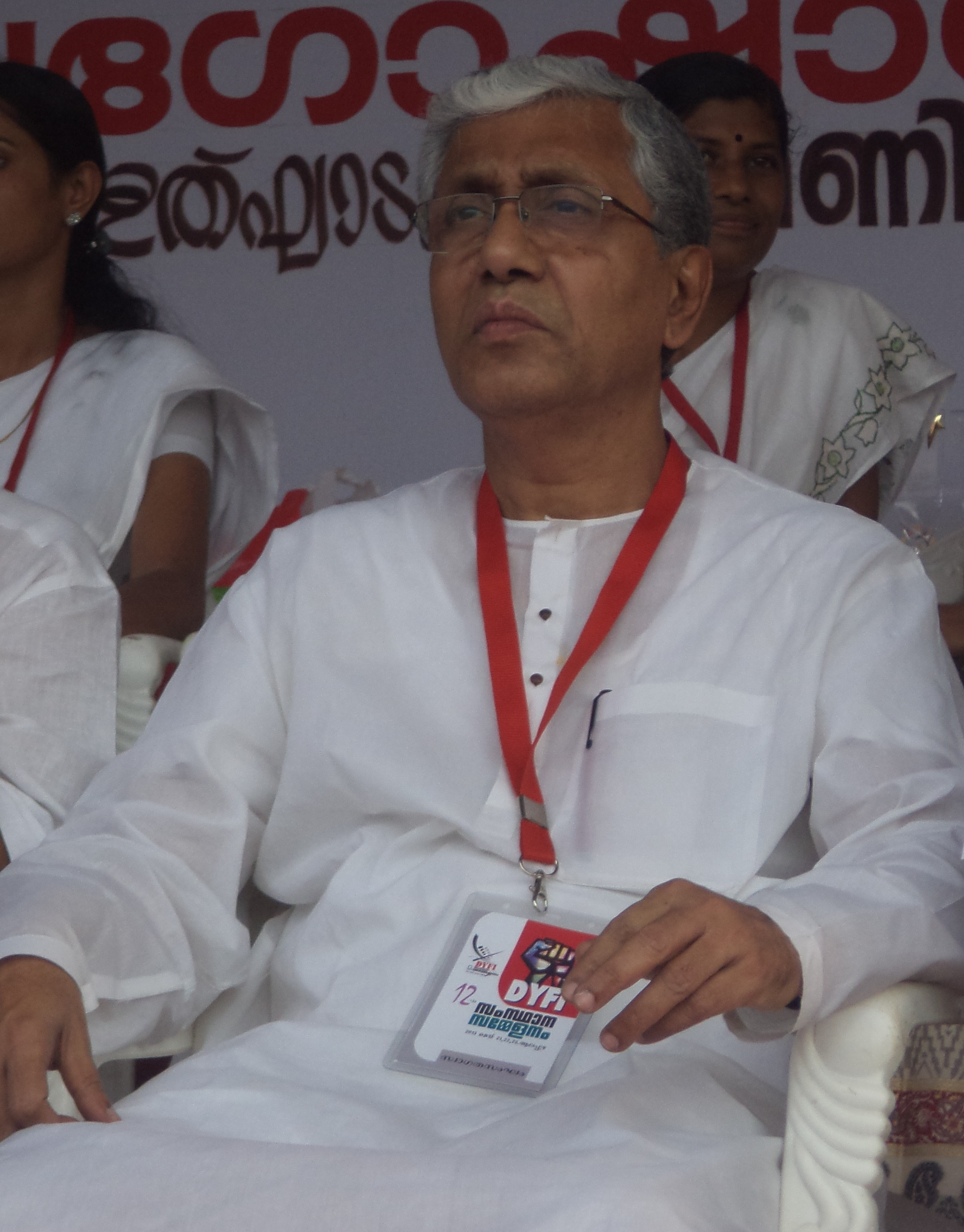 Mani Sarkar in Rally in connection with DYFI Kerala State Conference